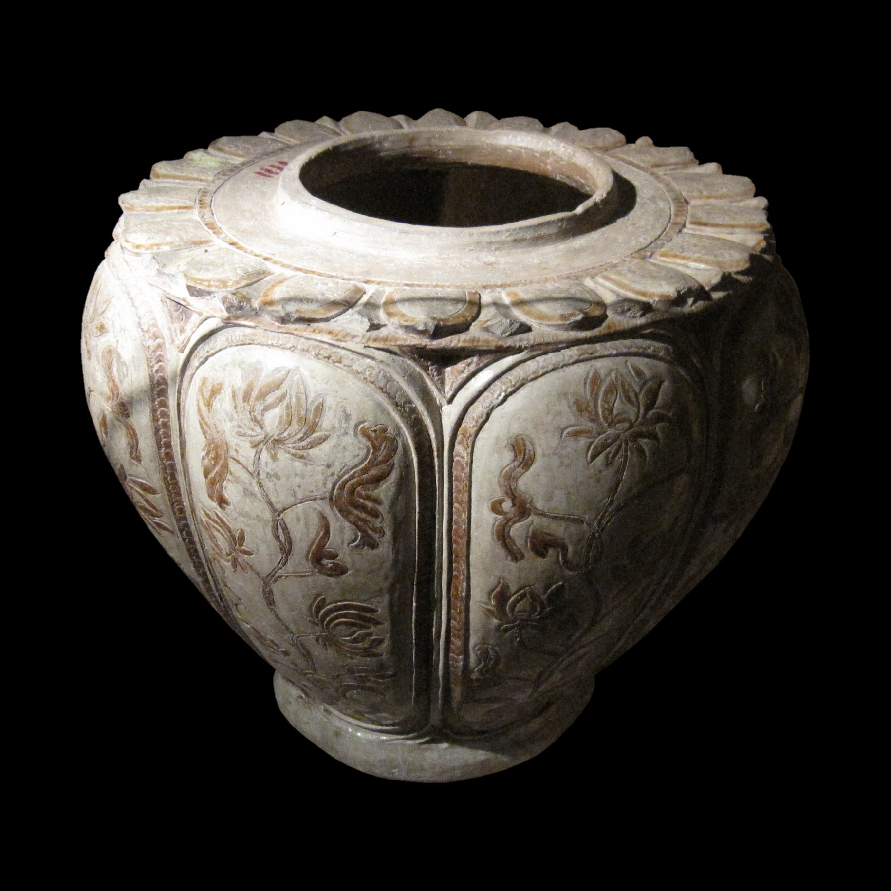 Jar with lotus, chrysanthemum motifs. Pattern brown glazed ceramic, Trần dynasty, 13th-14th century. Nam Định province, northern Vietnam. Domestic use. National Museum of Vietnamese History, Hanoi.